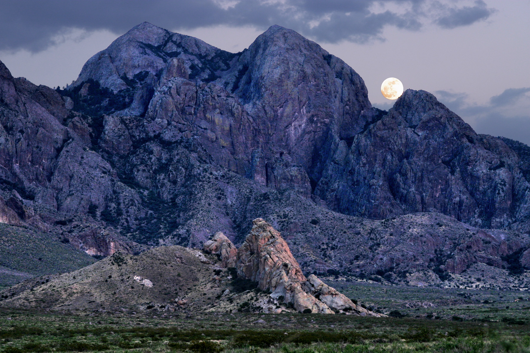 The Organ Mountains-Desert Peaks National Monument in New Mexico was established on May 21, 2014, by Presidential Proclamation, and is managed by the Bureau of Land Management. The Monument includes 496,330 acres, and was established to protect significant prehistoric, historic, geologic, and biologic resources of scientific interest. The National Monument includes three distinct regions: Organ Mountains, Desert Peaks, and Potrillo Mountains. Photo: Patrick Alexander, Las Cruces District Botanist